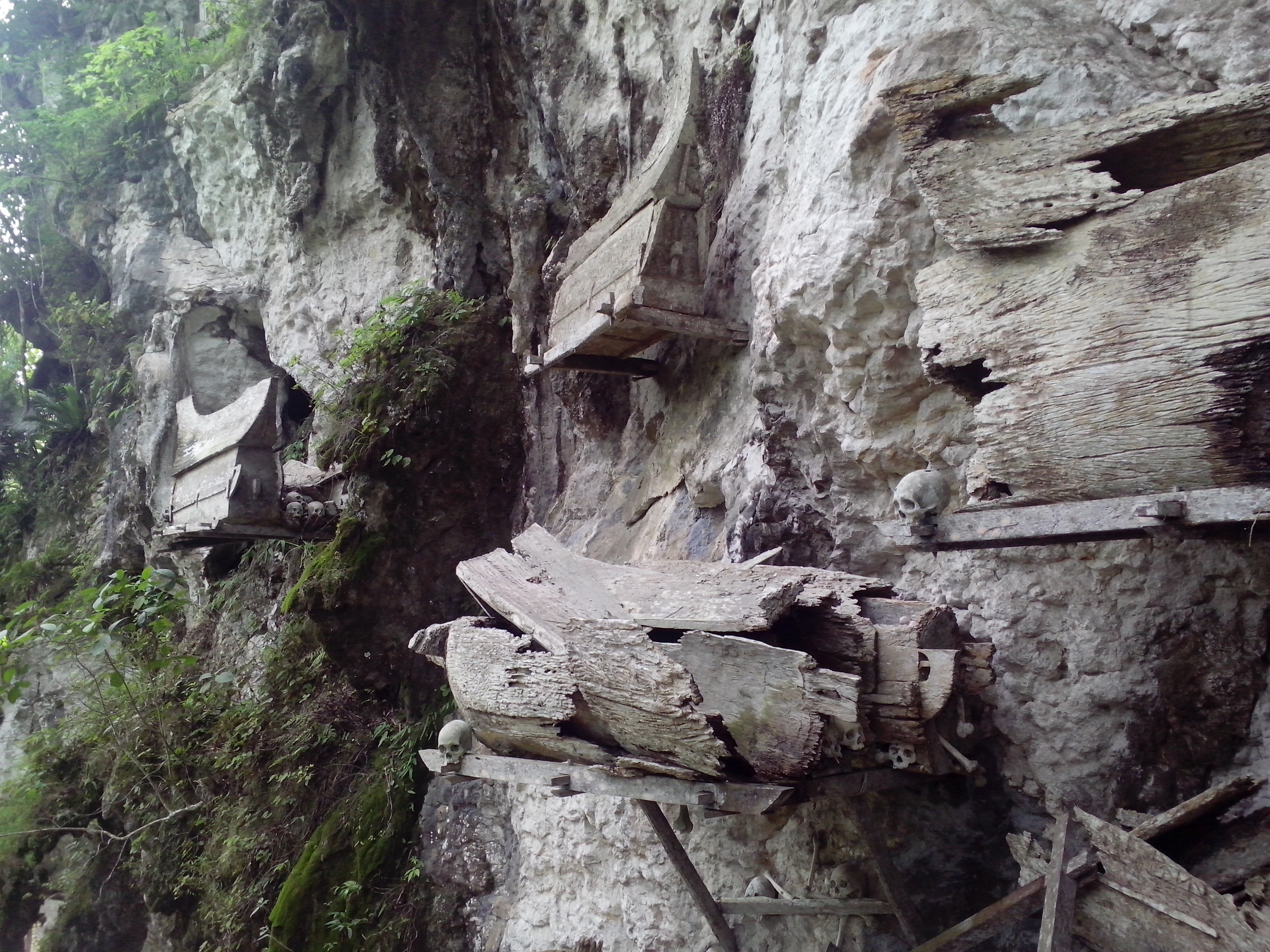 Traditional Torajan coffins (erong) hanging on cliffs in Ke'te' Kesu' burial site.